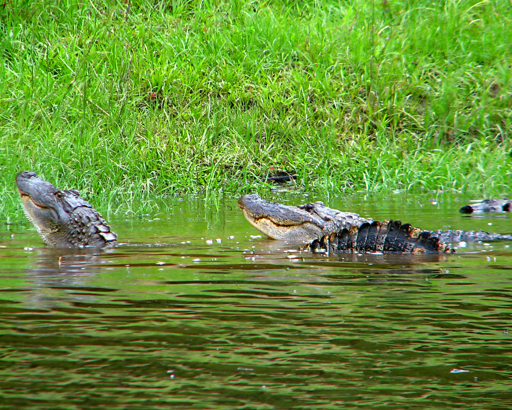 Noxubee National Wildlife Refuge, MS May 18, 2008 Photo: Roger Smith/Creative Commons